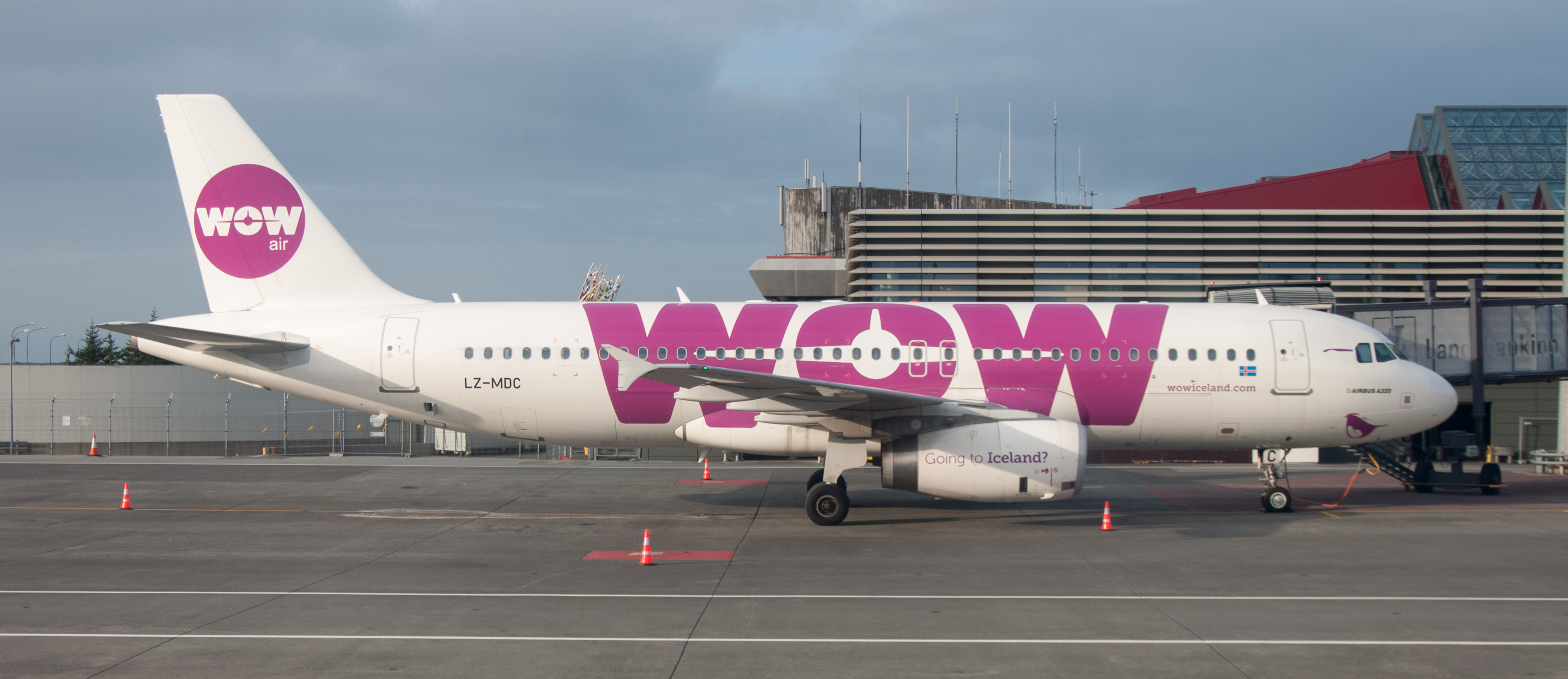 Iceland, spotting at Keflavik airport